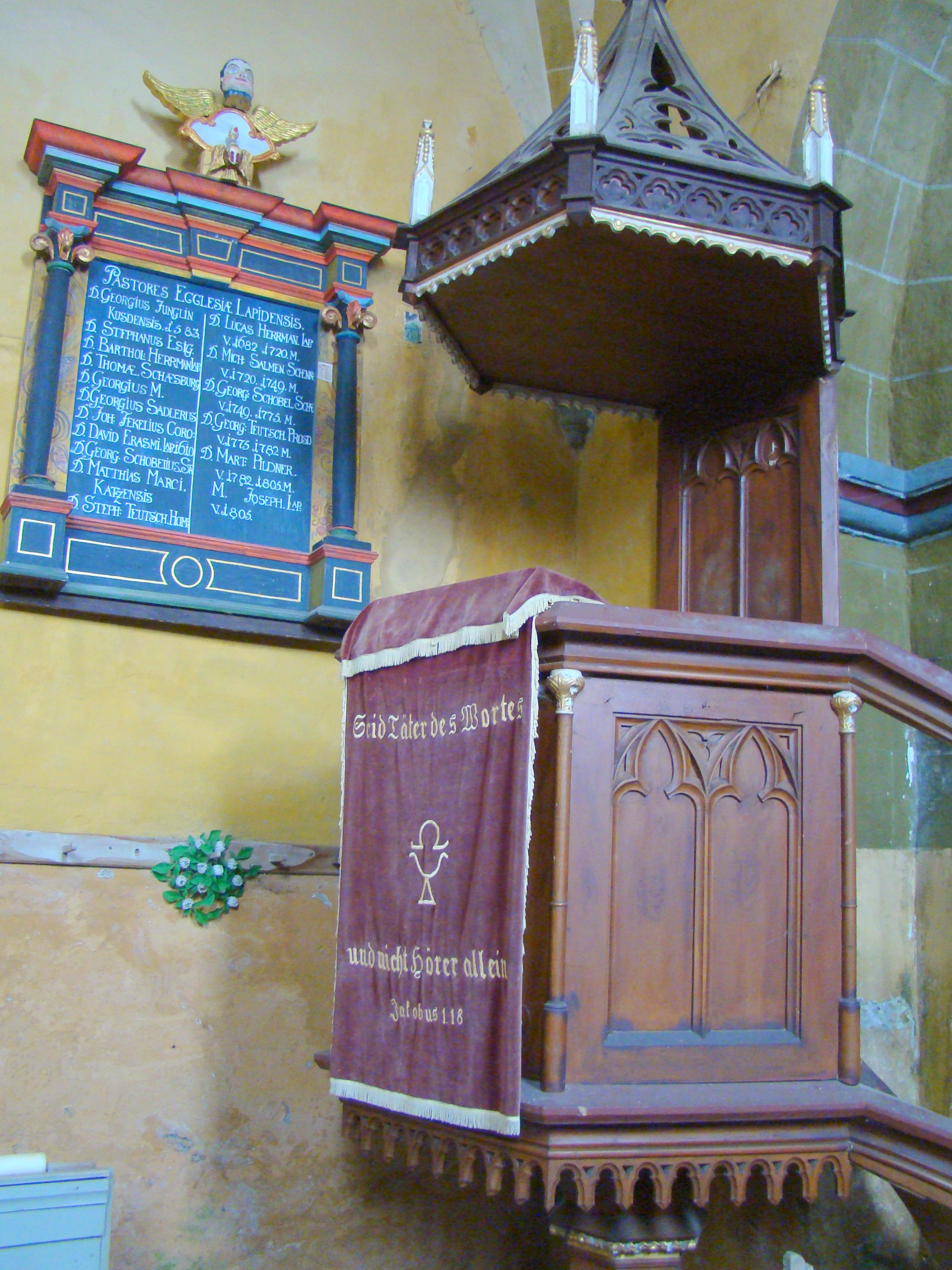 Fortified church in Dacia, Brașov County, Romania